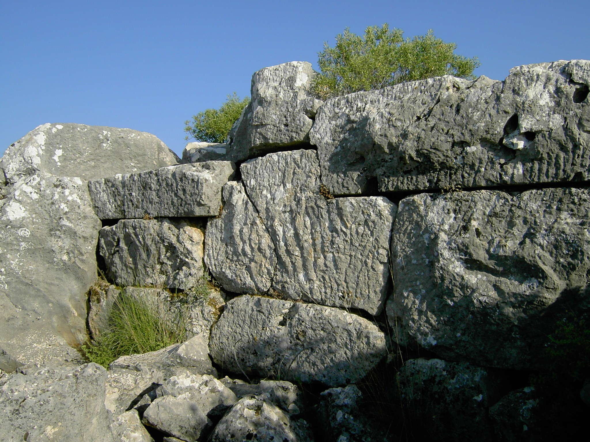 Remnants of an ancient wall in the Lycian city of Arsada